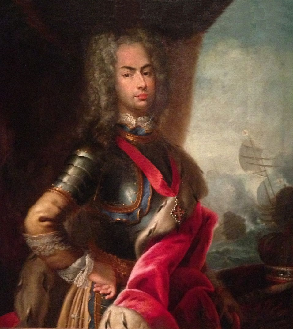 Portrait of King John V of Portugal alluding to the Battle of Cape Matapan